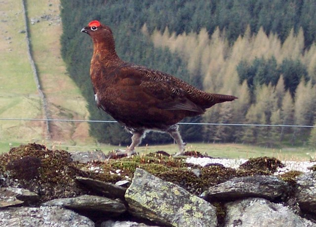 Red Grouse (Lagopus lagopus scoticus) The familiar red grouse is a subspecies of the willow grouse, and one which is endemic to Britain. Red grouse are the quintessential moorland bird and are often heard calling or seen in flight as they fly low over the ground away from danger. It has isolated southern outposts in the south - notably Dartmoor - but northern England and Scotland are its strongholds. Many moorland areas are 'managed' specifically to encourage red grouse, the heather being burned periodically to encourage the new growth of shoots. At close range the males shows red wattles and white feathered legs, the female is a greyer brown with buff coloured legs and no wattles.